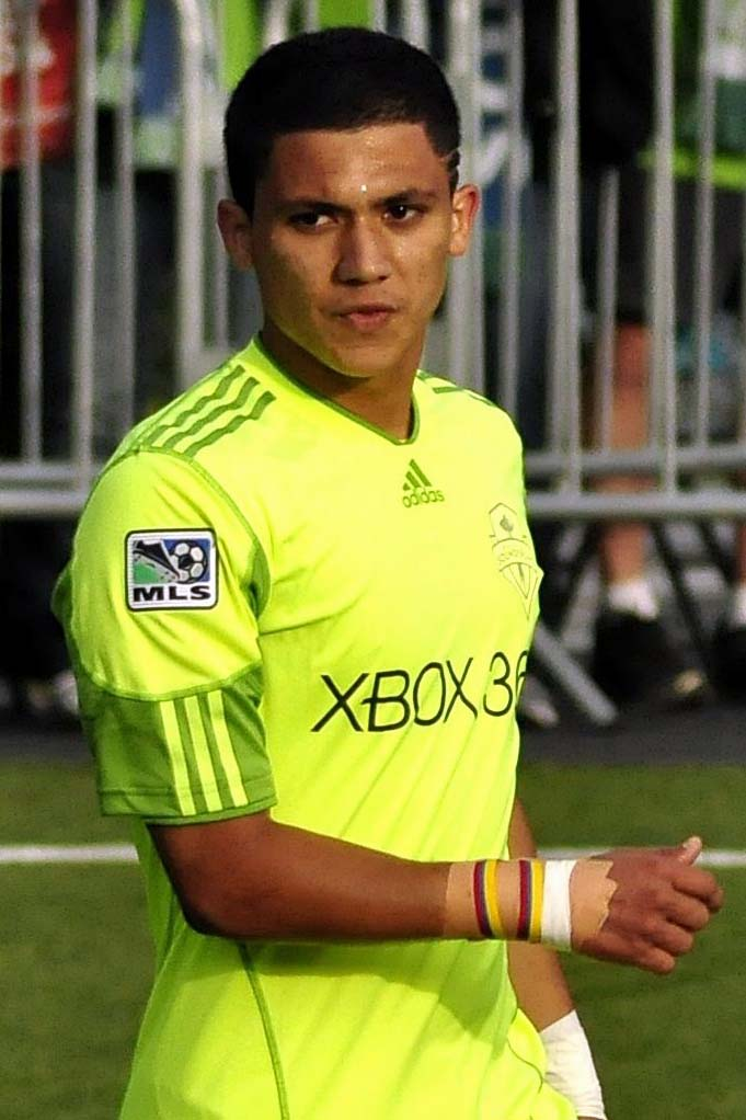 Fredy Montero of the Seattle Sounders